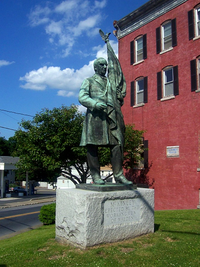 Statue of William McKinley, Walden, New York.